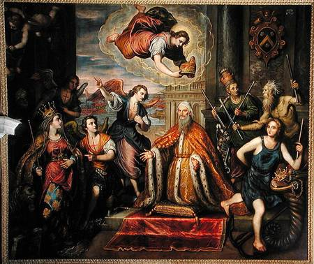 Giovanni Bembo (1543-1618) kneels before a personification of Venice